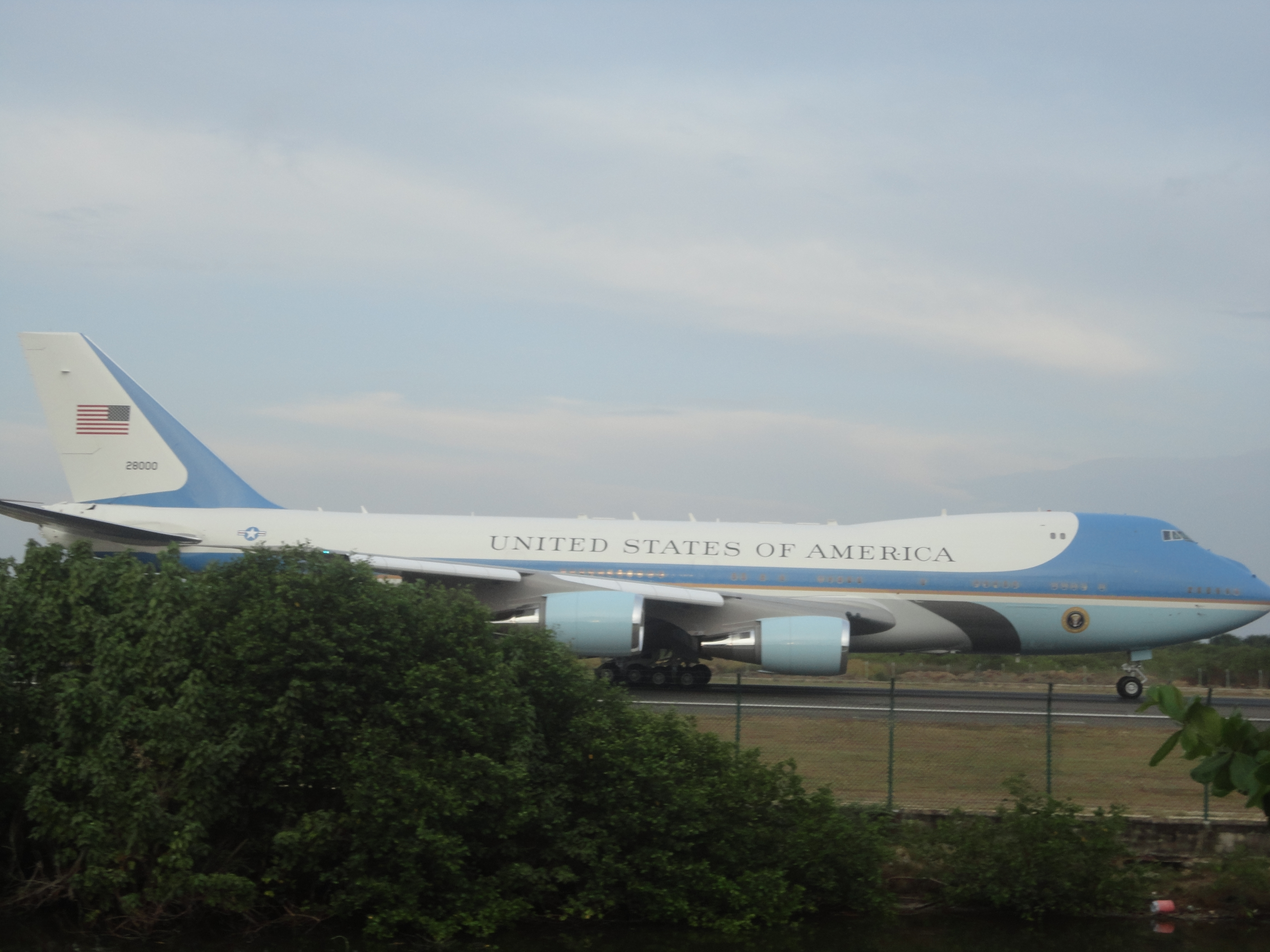 SKCG Summit Of Americas